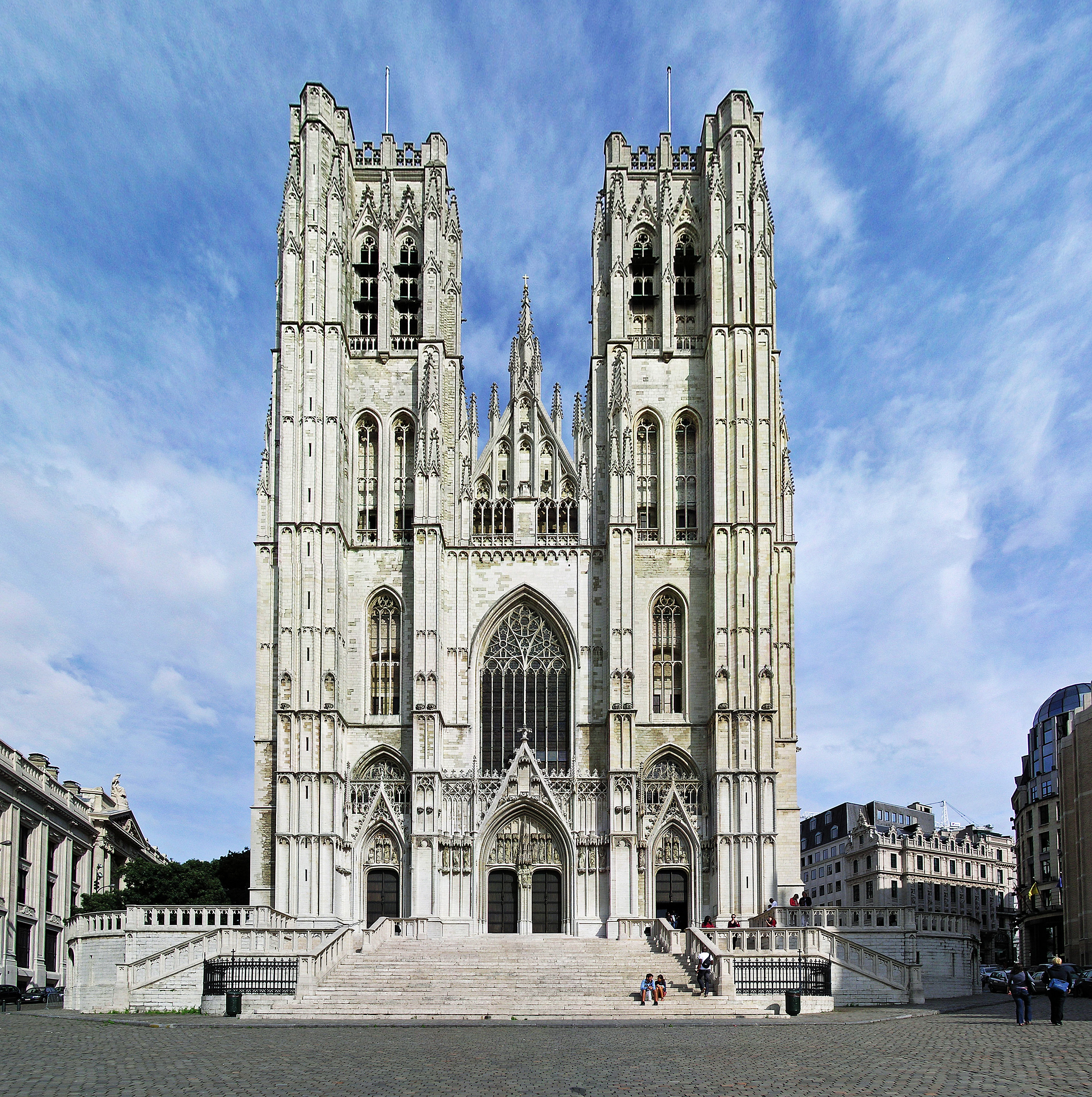 St. Michael & St. Gudula Cathedral Tower, Brussels, Belgium